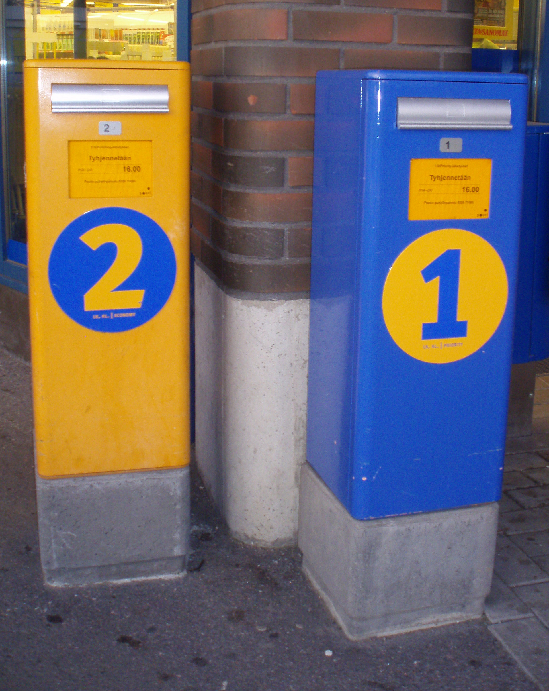 First ans Second Class Mail mailboxes in Heinola, Finland.